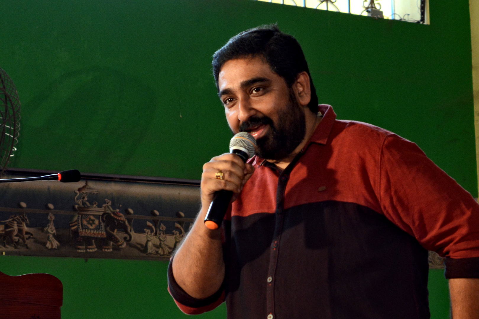 M. Jayachandran is a film score composer, singer and musician in the Malayalam film industry. Photograph taken when he was the chief guest at an Onam Celebration in Chennai on Oct 2016.